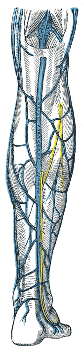 Posterior view or right leg, showing the small saphenous vein and the sural nerve.